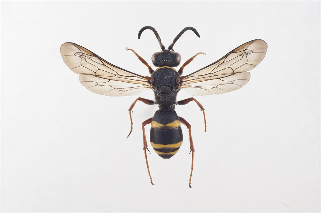 Museum specimen of Nysson spinosus from the Norwegian Biodiversity Information Centre